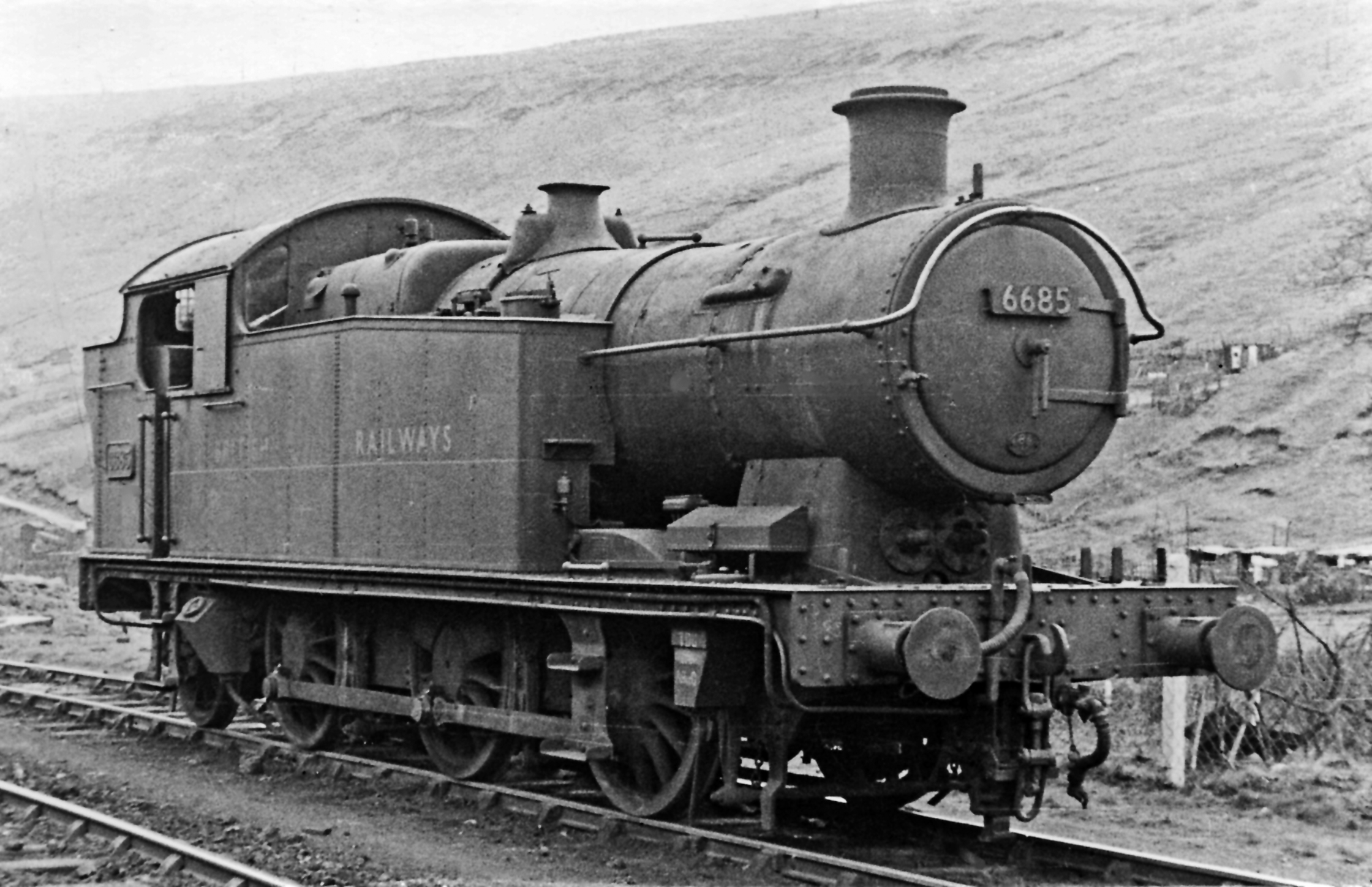 '5600' class 0-6-2T at Aberbeeg Locomotive Depot. One of the 200 Collett '5600' class, which in their day dominated the railways of the South Wales Valleys, No. 6685 was built 10/28 and withdrawn 9/64. Aberbeeg (BR/WR 86H) handled Ebbw Vale traffic and had an allocation of 36 in 1950:- 8 2-8-0T, 4 2-6-2T, 1 0-6-2T and 23 0-6-0T.